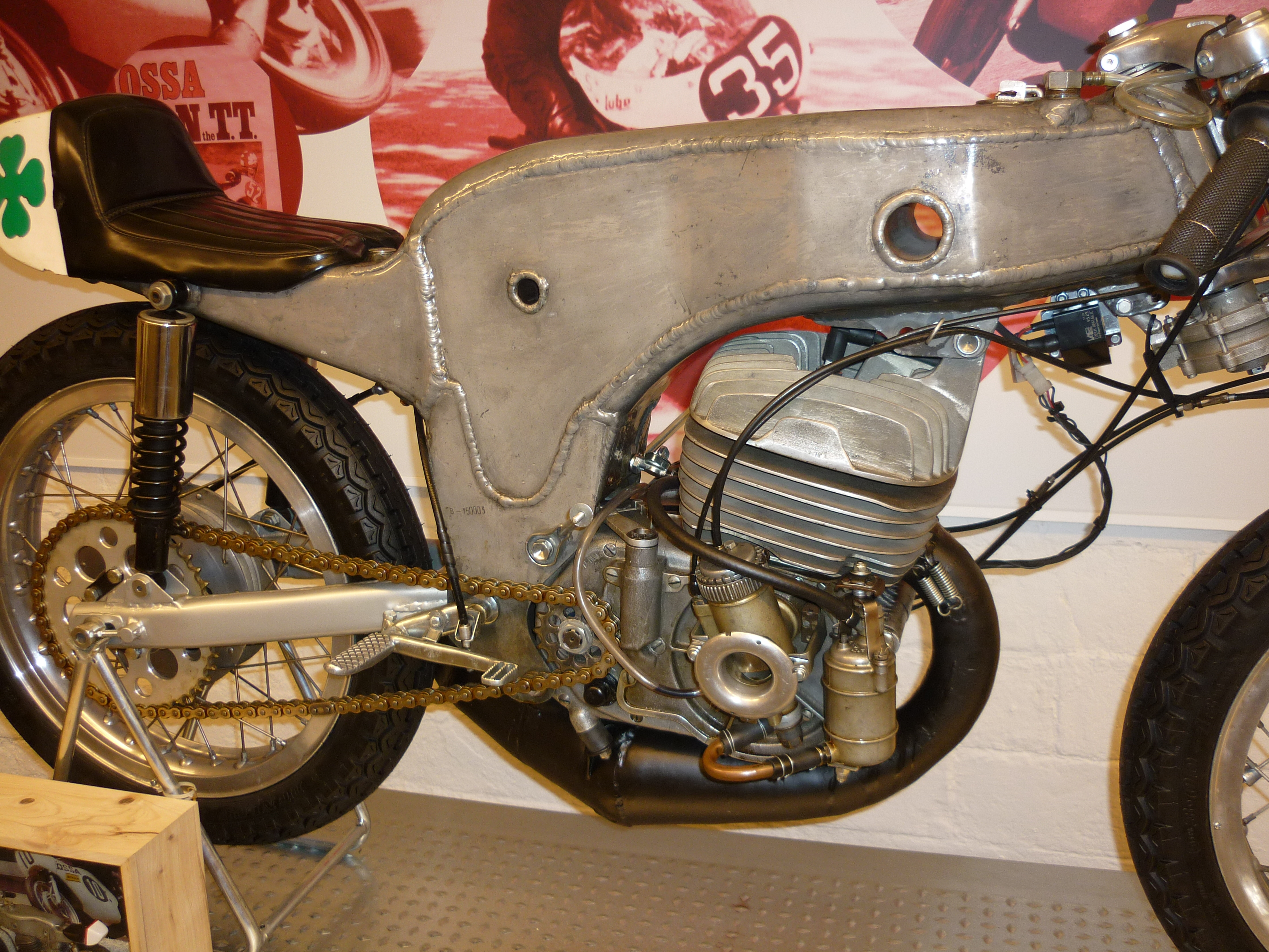 The frame of the OSSA Monocoque 250cc, 1968. Created by Eduard Giró and ridden by Santiago Herrero, this bike was regarded as the fastest single cylinder motorbike at the time and won several Grand Prix between 1968 and 1970. Herrero died when he crashed while riding it at 1970 Isle of Man TT.